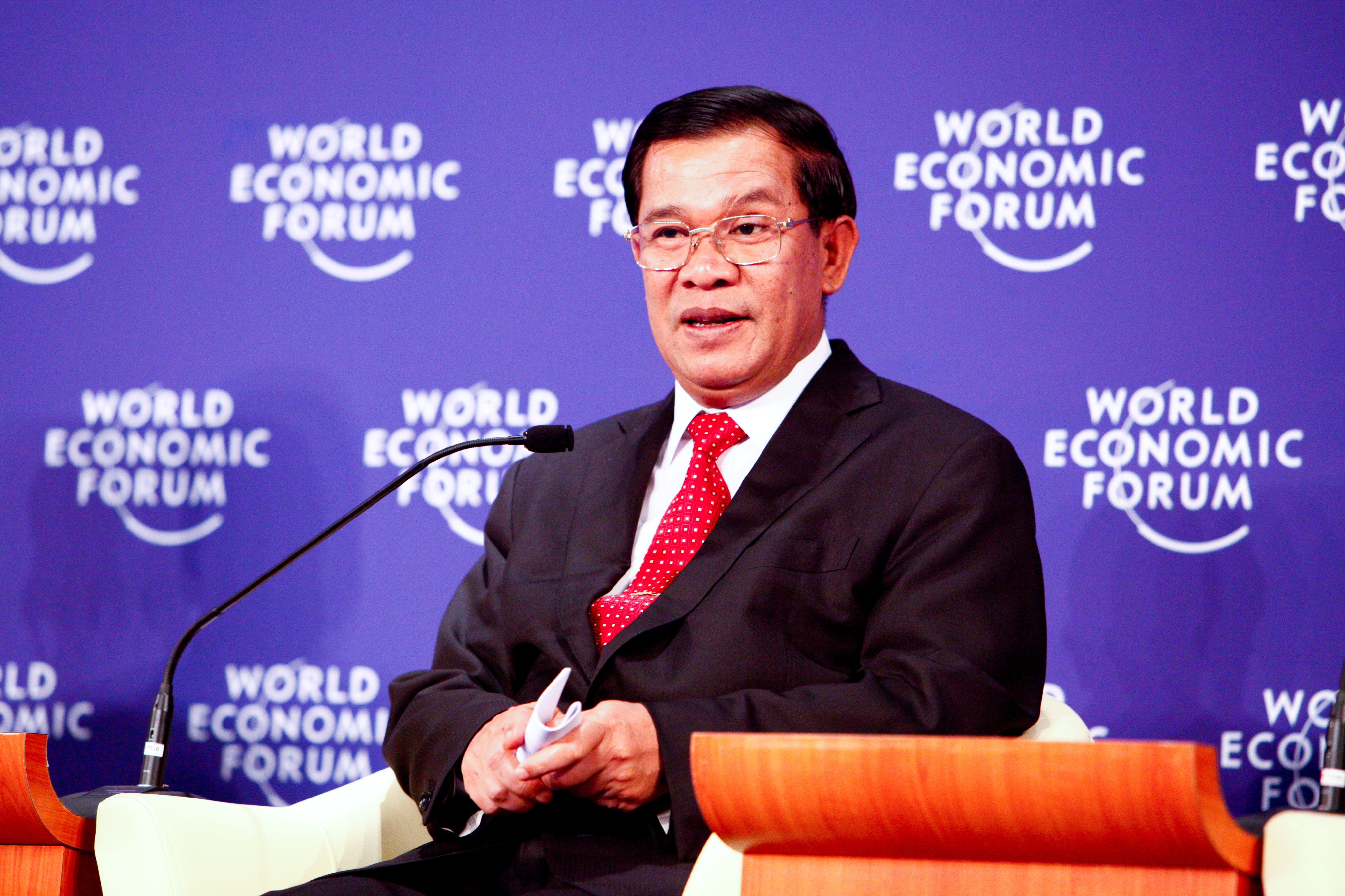 HO CHI MINH CITY/VIETNAM, 6JUN10 - Samdach Akkak Moha Sena Padey Dekjo Hun Sen, Prime Minister of Cambodia captured during the World Economic Forum on East Asia in Ho Chi Minh City, Vietnam, June 6, 2010.Ms. Sikarin Thanachaiary